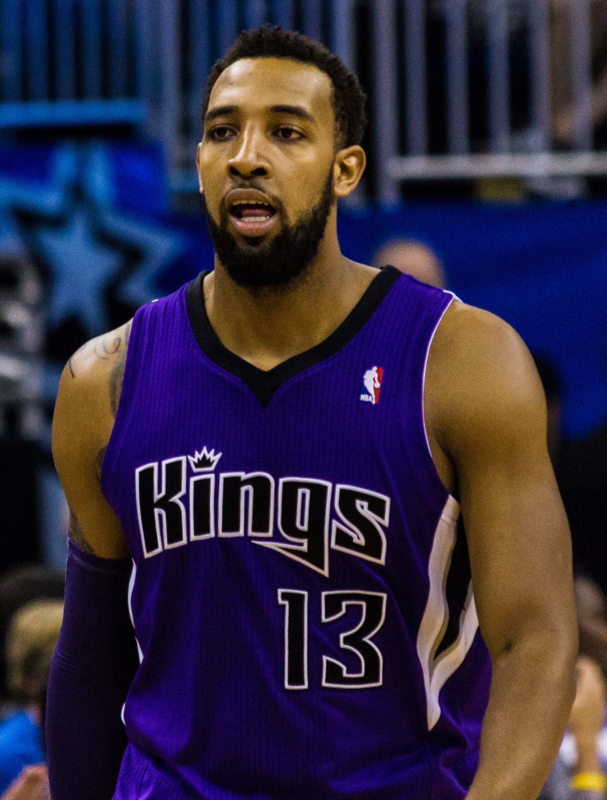 Williams playing for the Kings in 2013